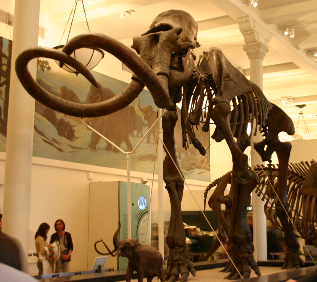 Mammuthus jeffersonii. Now a synonym of Mammuthus columbi, but perhaps a hybrid netween that species and Mammuthus primigenius (displayed at the American Museum of Natural History)